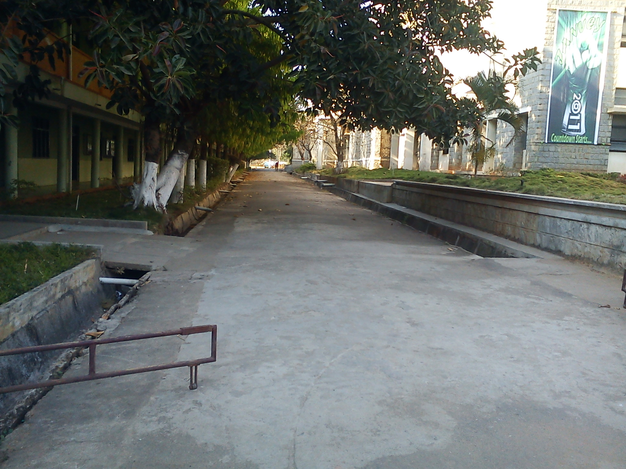 College campus